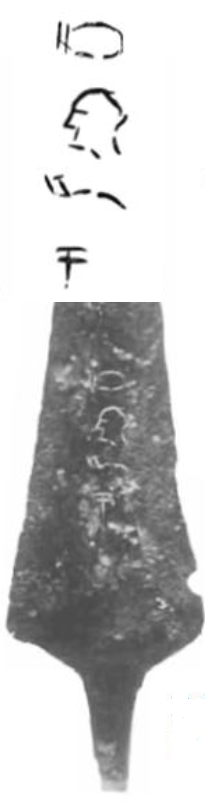 lakish dagger